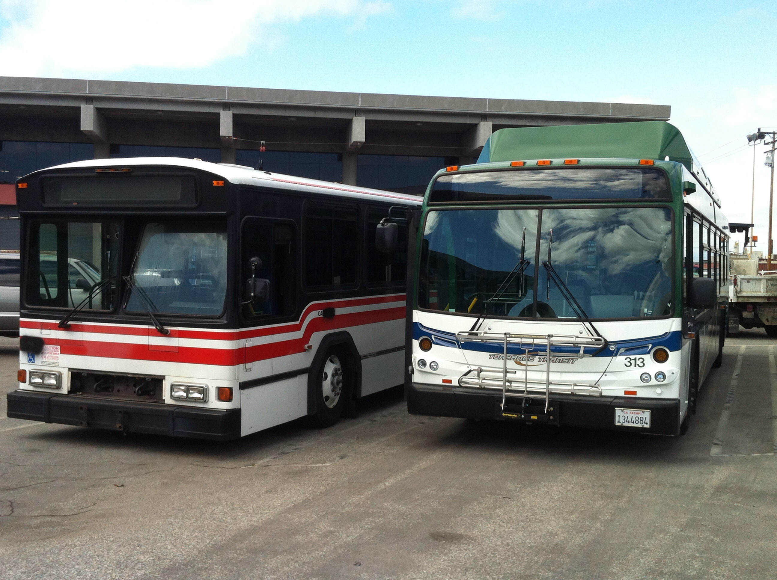 Gillig Phantom (Retired) & New Flyer C40LFR (Replacement)